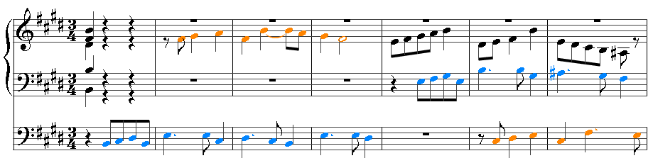 Bars 88-94 (start of the second fugue) from Prelude and Fugue in E major by Vincent Lübeck (c.1654-1740). Made using Sibelius 4 by Jashiin. The music quoted is in the public domain, and the image is hereby released into the public domain by Jashiin.